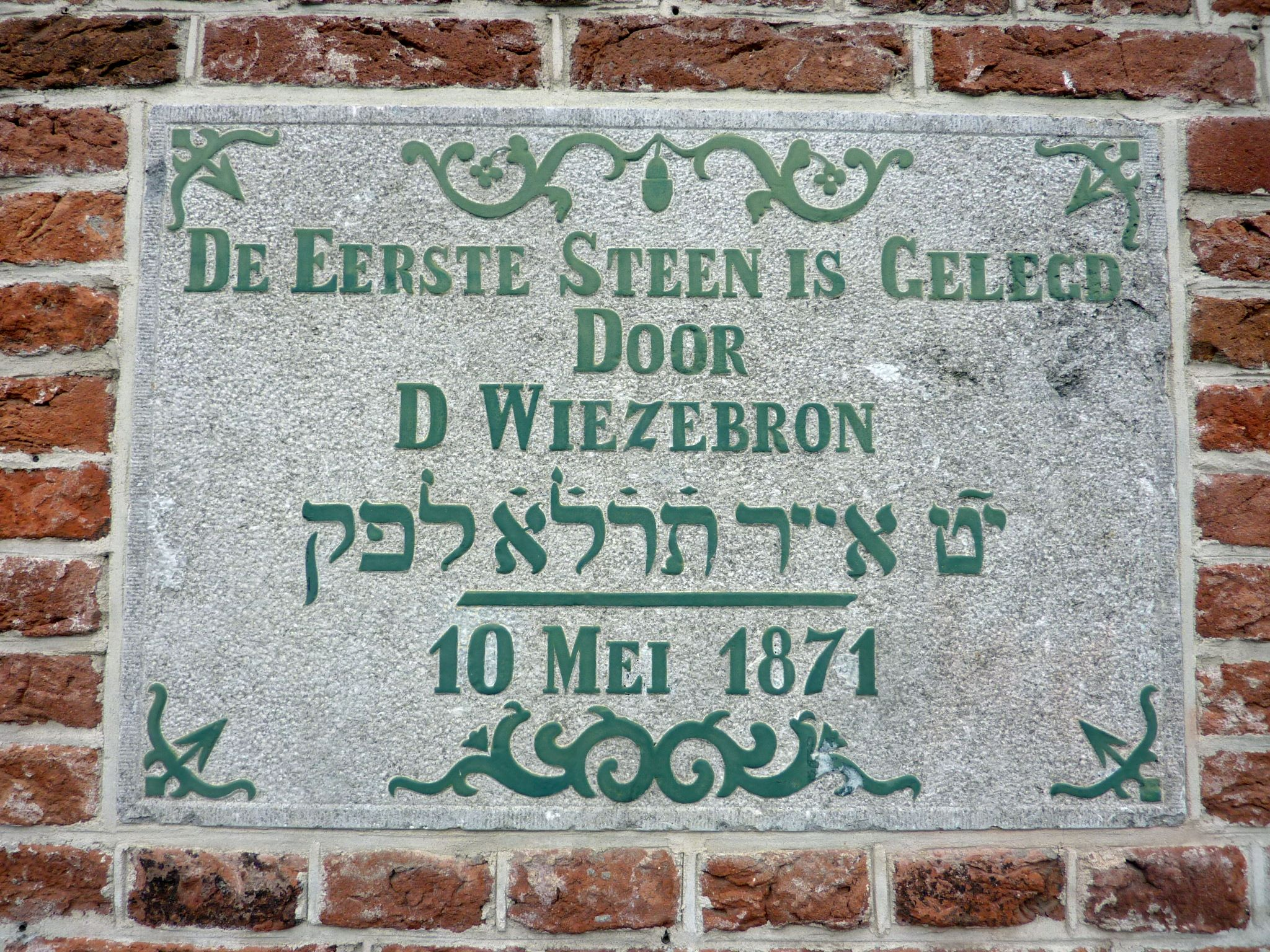 Synagogue (Brielle)